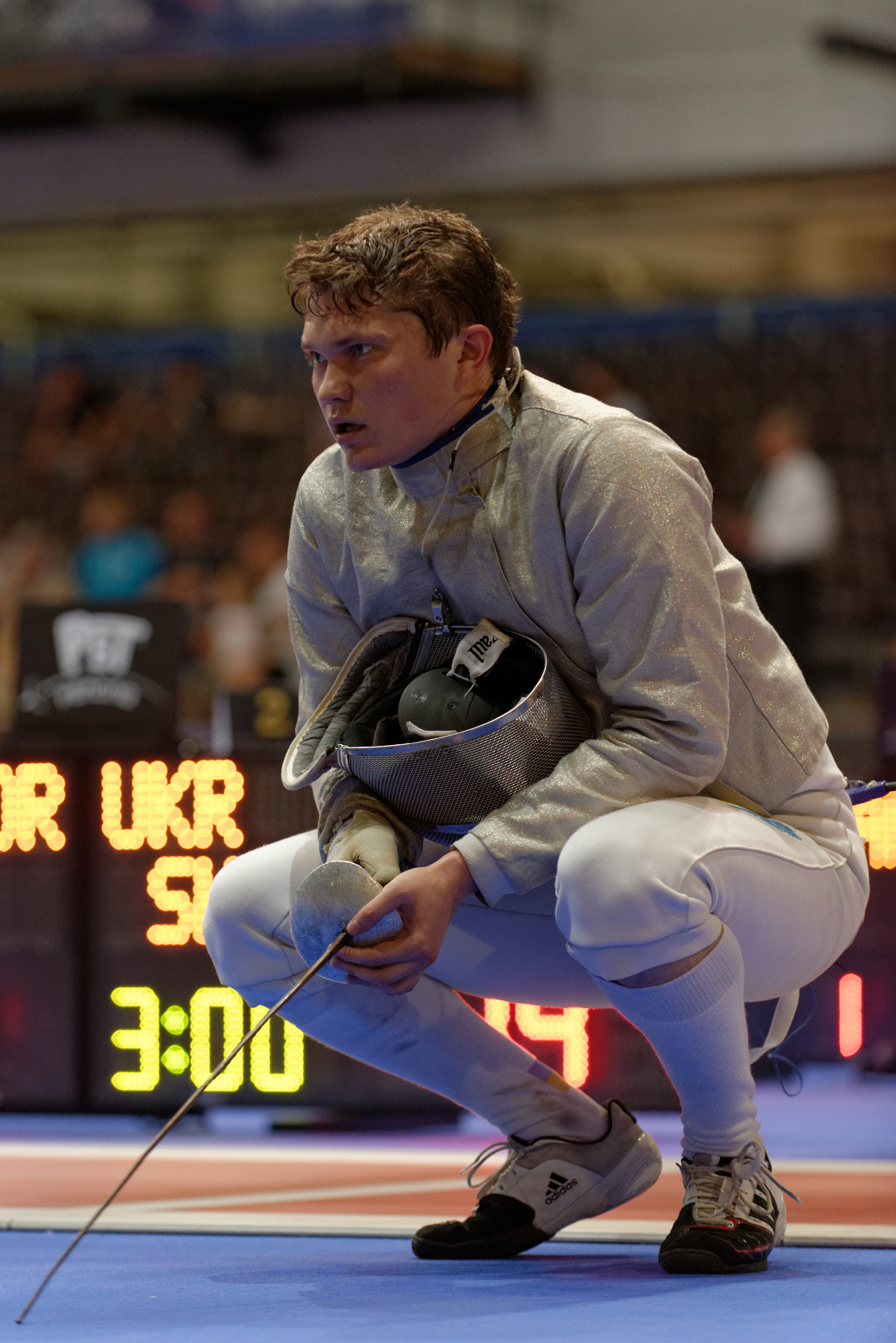 Ukraine's Oleh Shturbabin during his bout against Korea's Won Jun-ho in the men's sabre round of 64 of the 2013 World Fencing Championships at Syma Hall in Budapest, 7 August 2013.